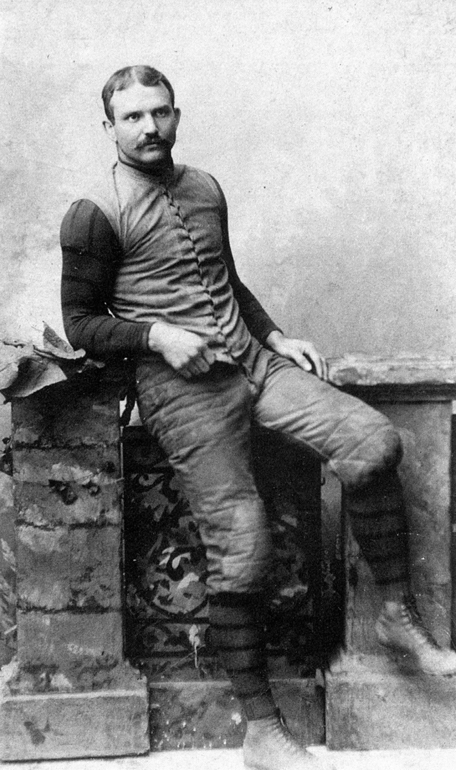 George W. Woodruff, portrait photograph in football attire